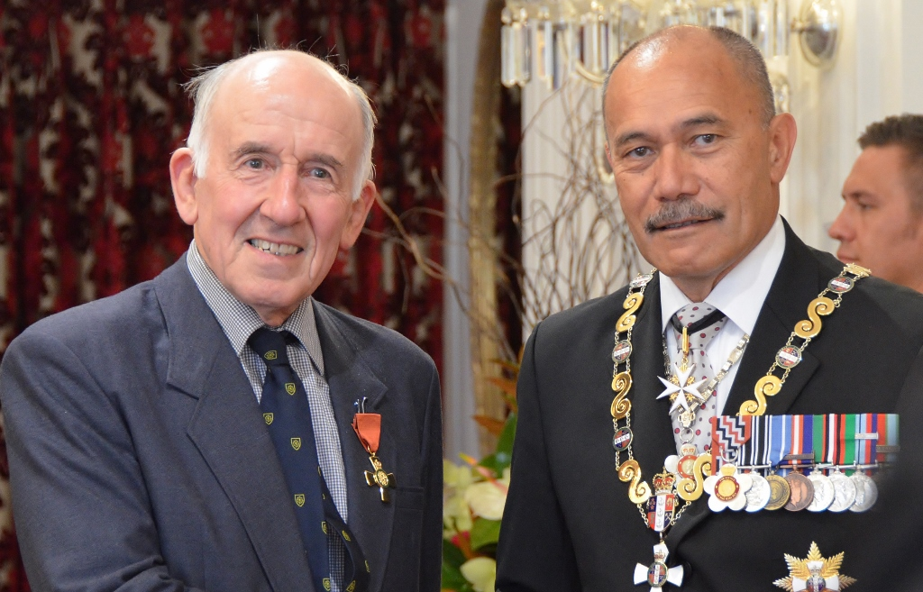 Professor Charles Higham (left), of Dunedin, after his investiture as ONZM, for services to archaeology, by the governor-general, Sir Jerry Mateparae, on 12 April 2016